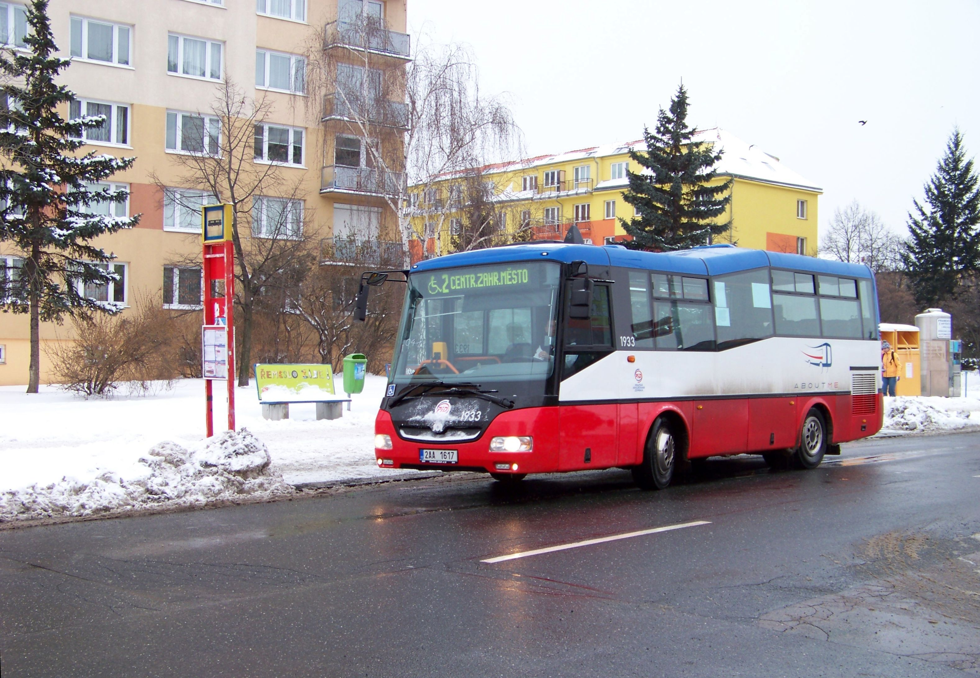 Prague-Záběhlice, the Czech Republic. A midibus for handicapped.